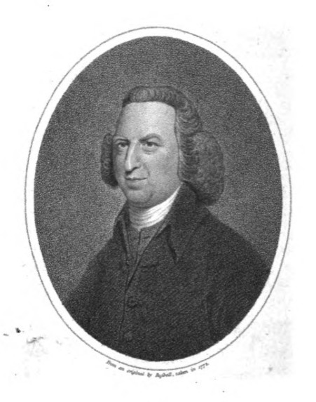 Portrait of Richard Conyers (1725–1786), English evangelical clergyman of the Church of England. Evangelical Magazine, October 1794.